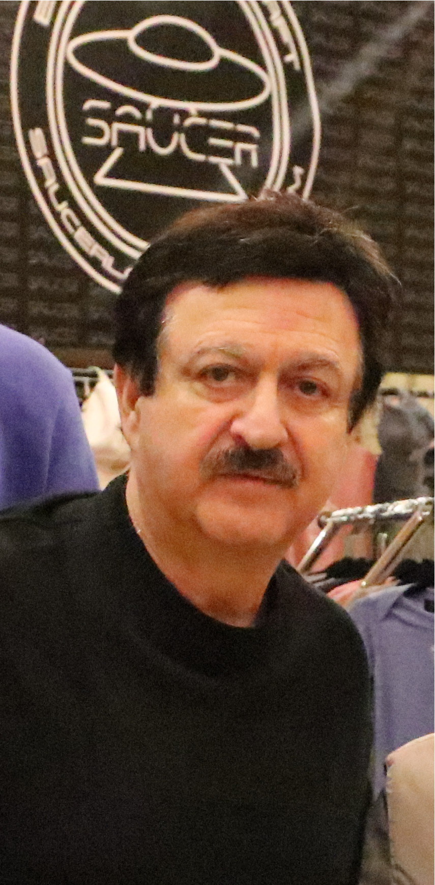 Radio talk show host George Noory at Alien Snowfest 2019 in Big Bear, CA.